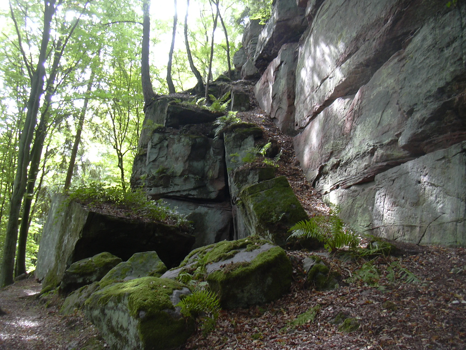 Heidelsburg (Roman castrum), natural sandstone rocks supplementing walls, near Waldfischbach-Burgalben / Palatinate, Germany